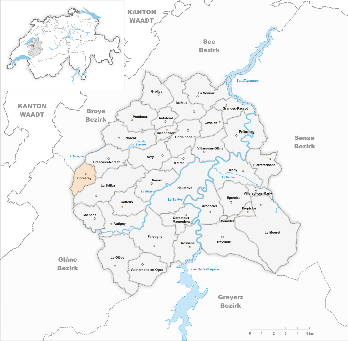 Municipality Corserey